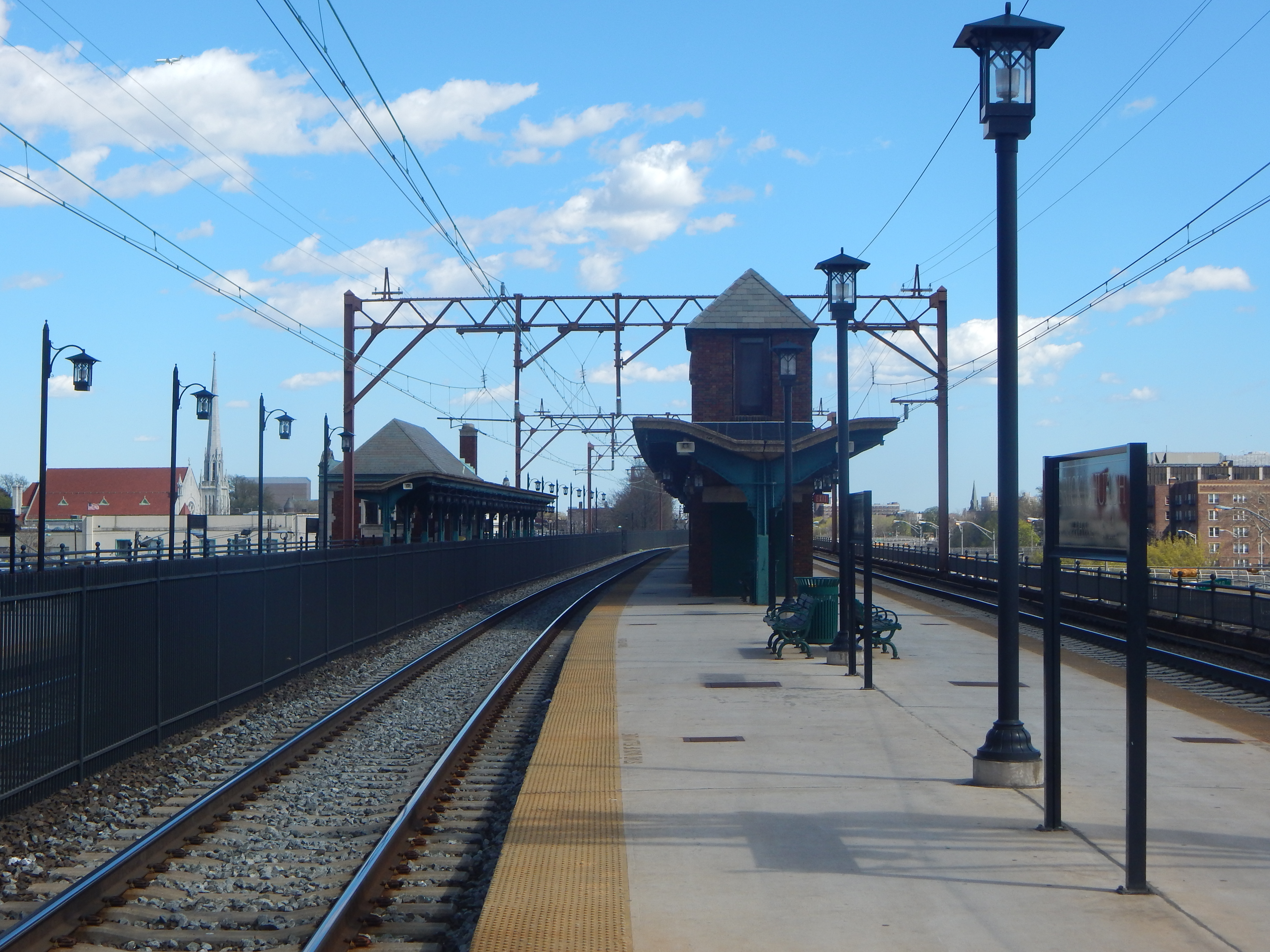 Brick Church station in East Orange, New Jersey.